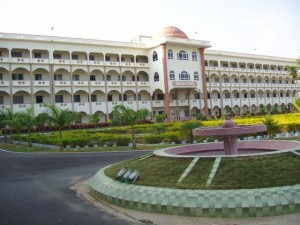 A free image